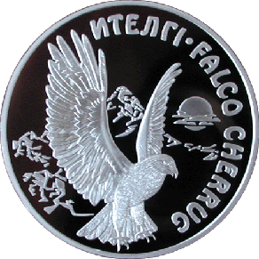 Coin of Kazakhstan